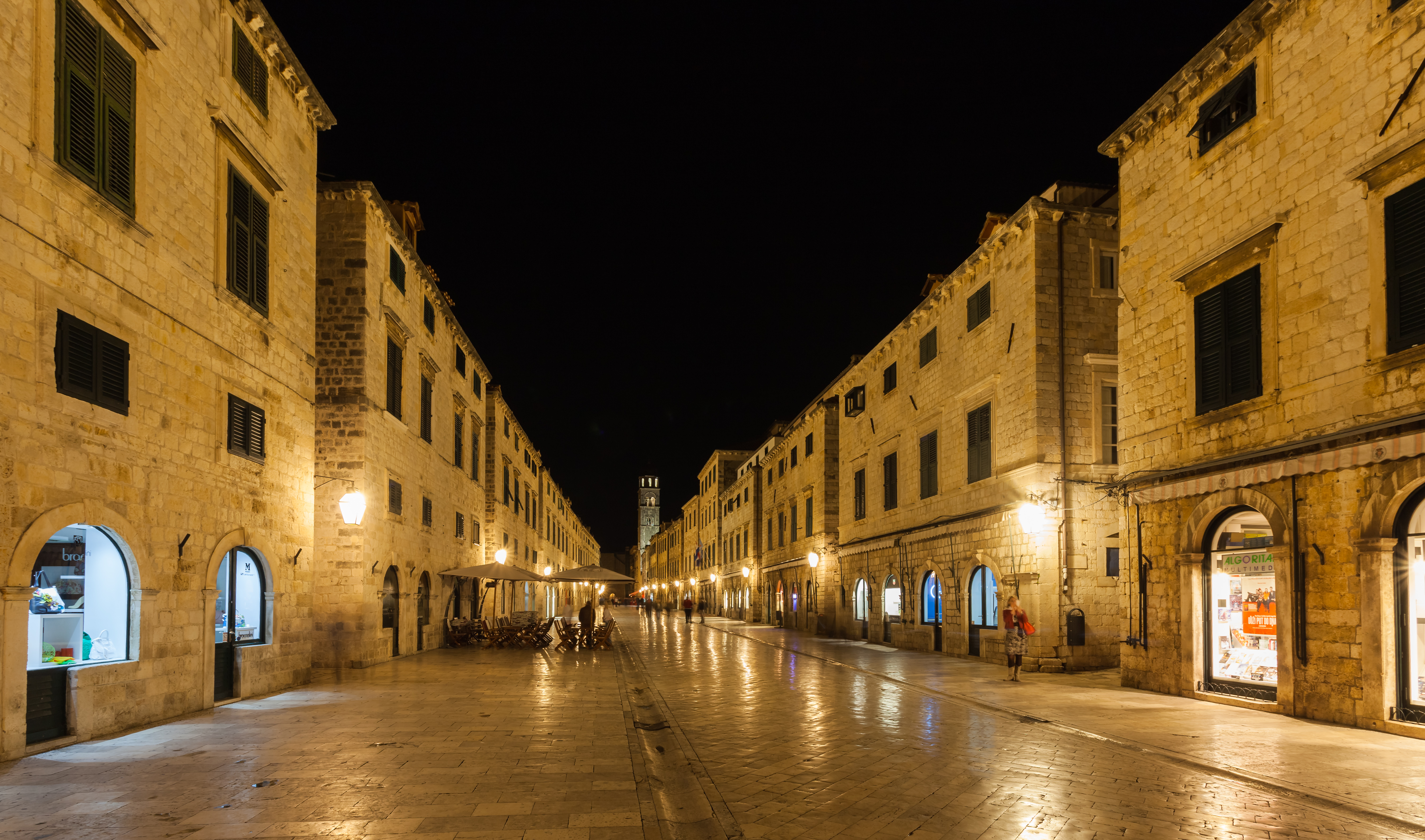 Stradun, old city of Dubrovnik, Croatia